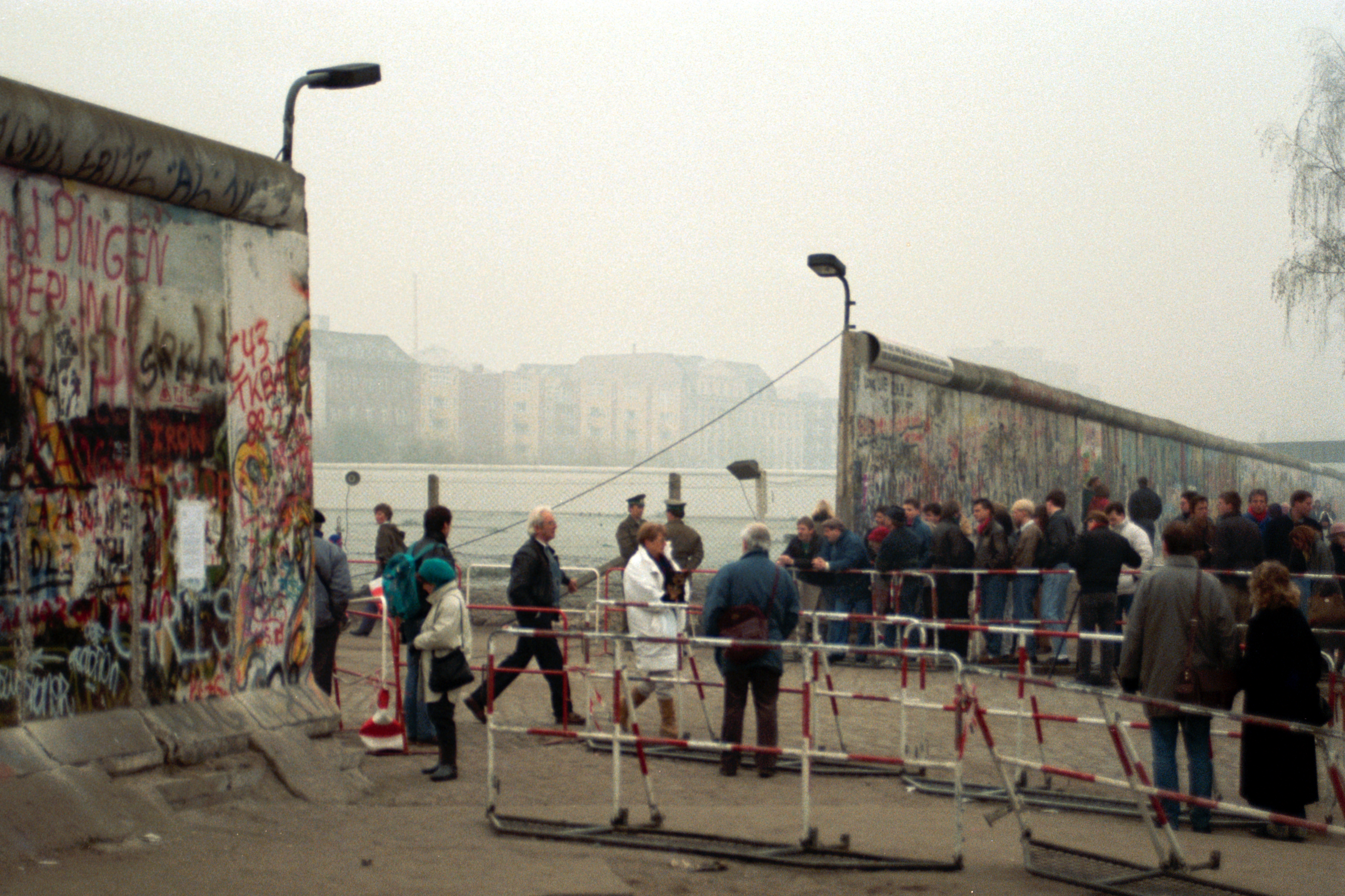 Potsdamer Platz Berlin